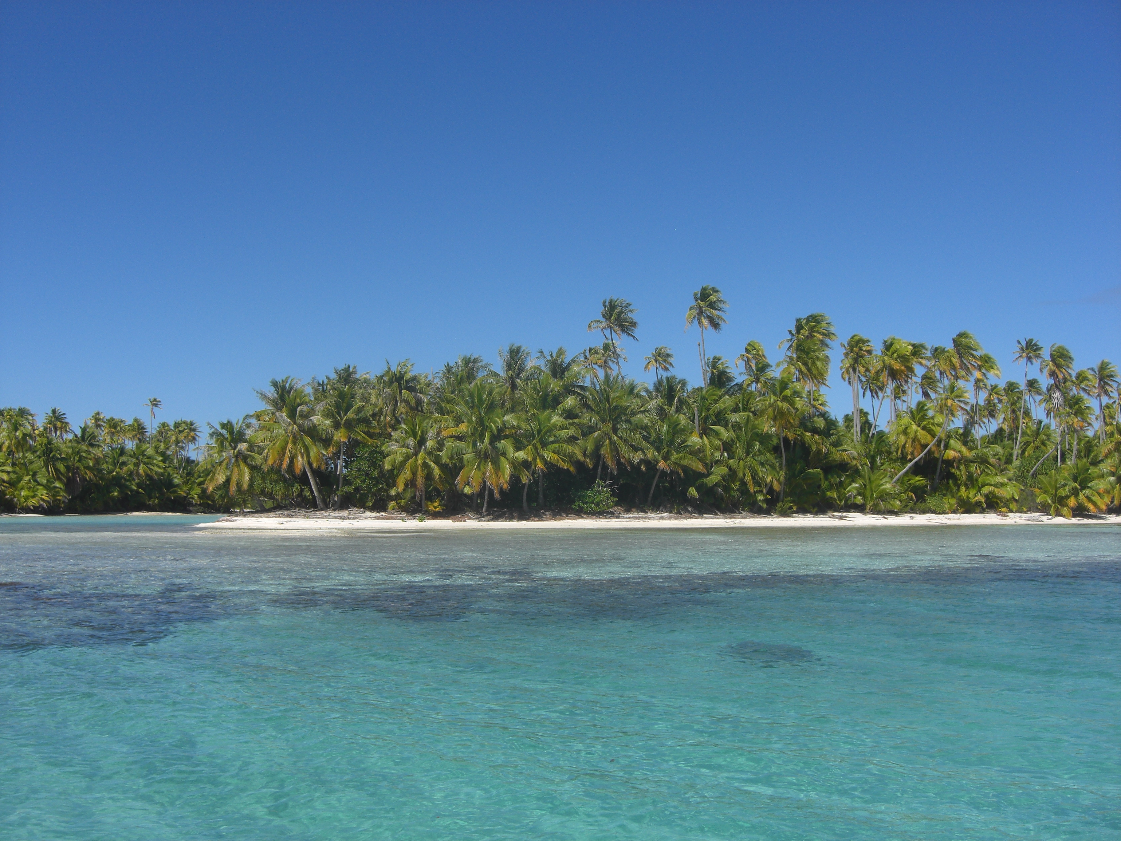 Rangiroa (île aux récifs)